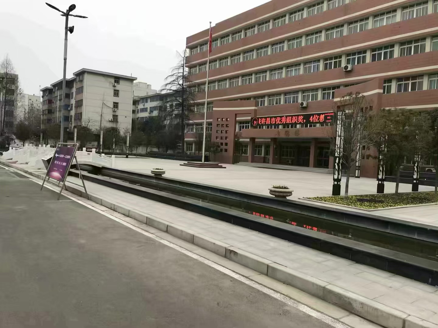 办公楼（北校区）